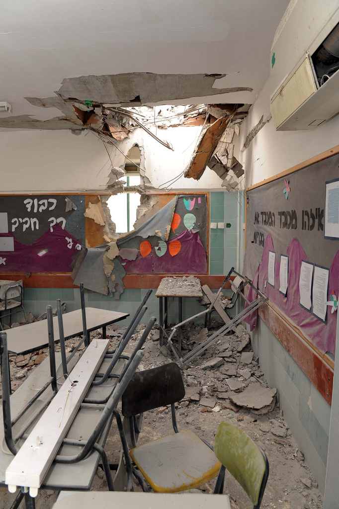 Grad rocket fired from Gaza hits Southern Israeli city of Beer Sheva and destroys a kindergarten classroom